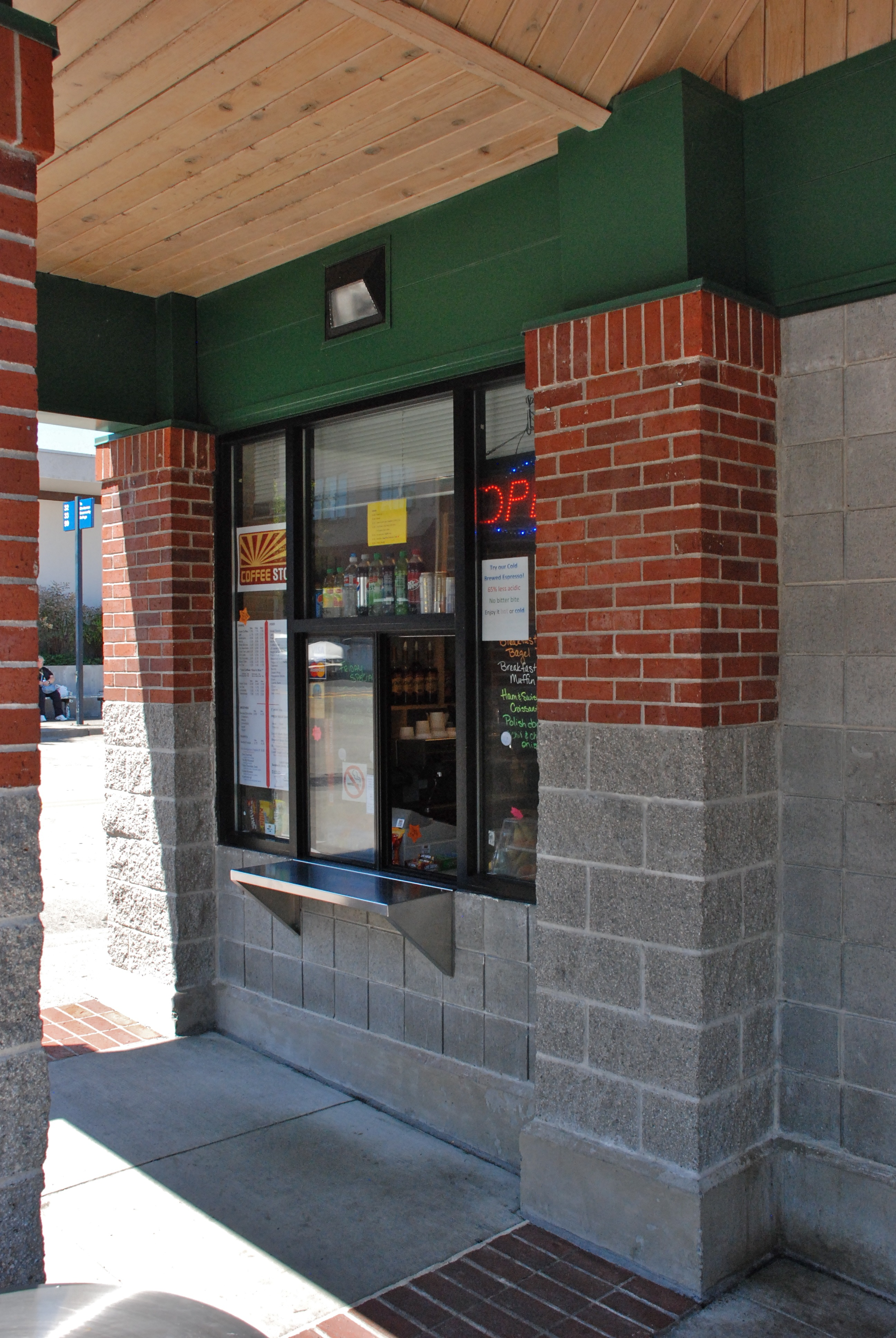 The concession stand at TriMet's Oregon City Transit Center. At the time of the photo, its operator was named the "Coffee Stop".